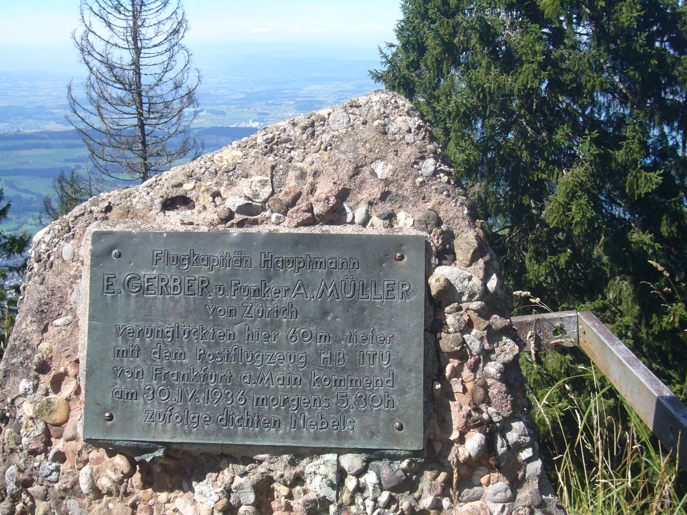 Memorial HB-ITU Rigi Staffelhöhe